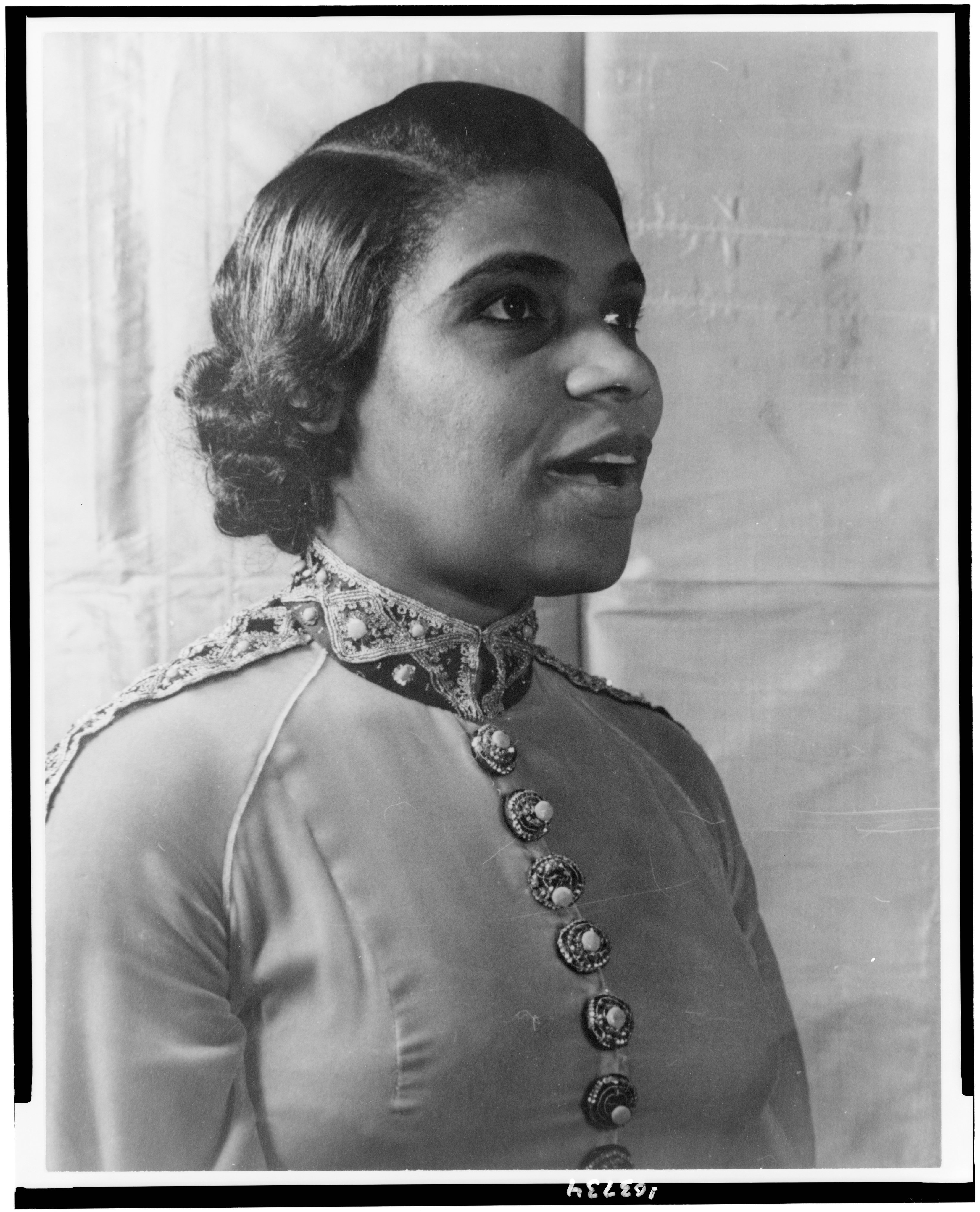 Portrait of Marian Anderson singing. Gelatin silver.